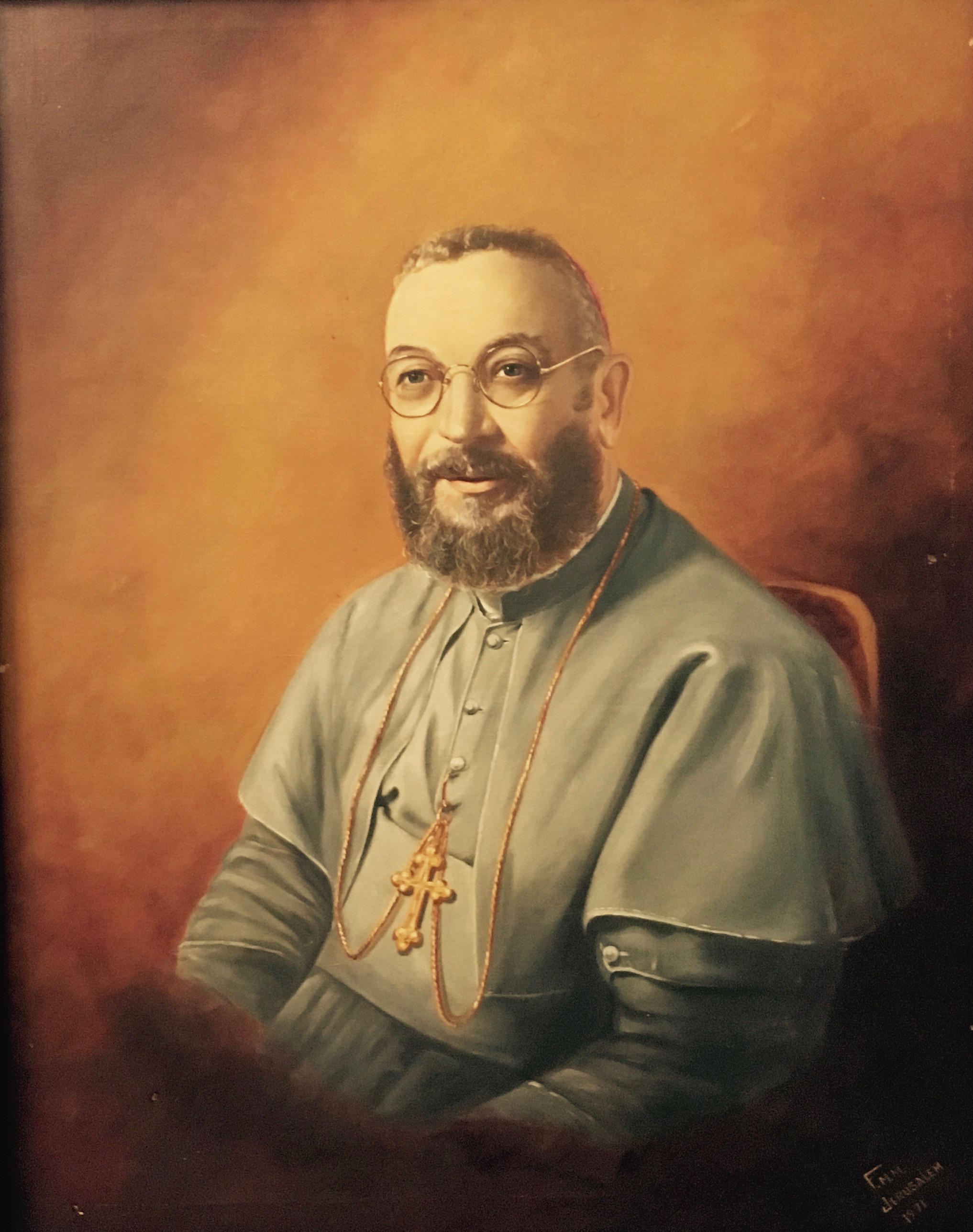 Portrait Alberto Gori (Latin Patriarchate of Jerusalem)